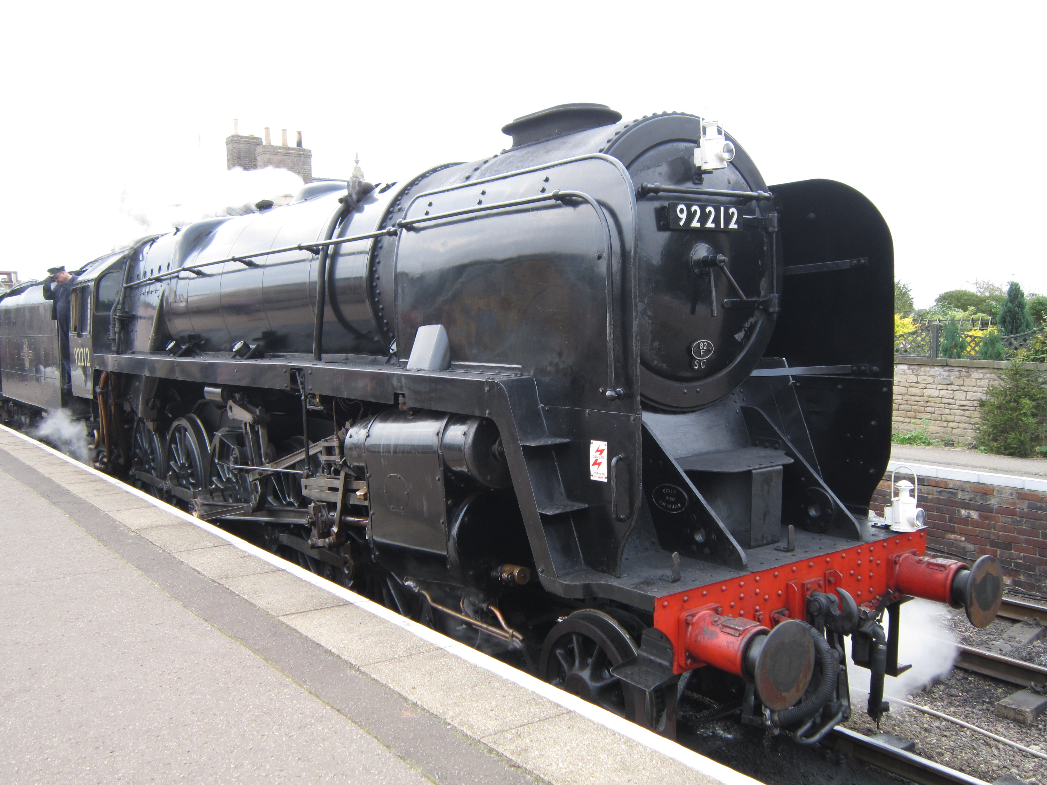 BR Standard Class 9F No. 92212 visiting Nene Valley Railway in 2014